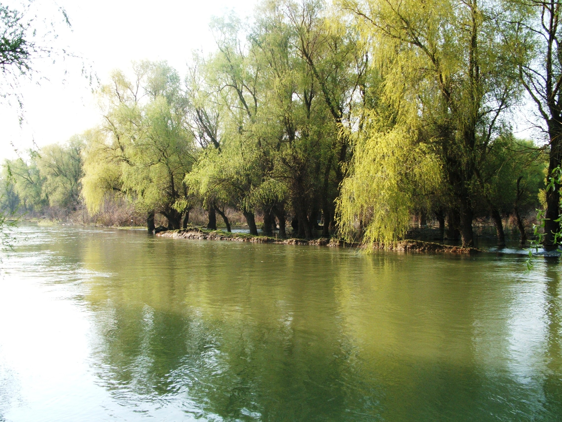 View of the Danube Delta in romania.